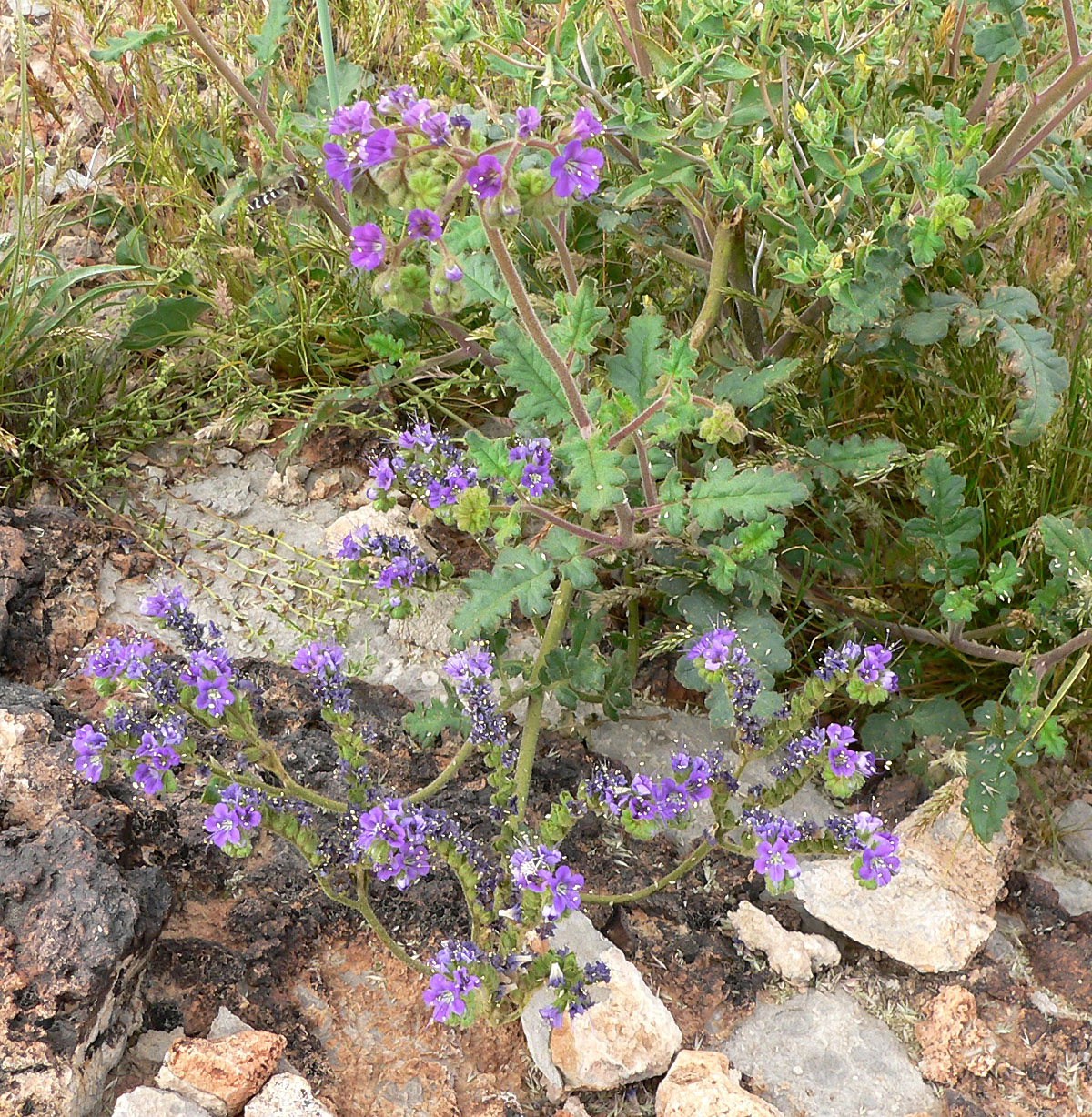 Photo of Phacelia crenulata in the desert west of Las Vegas, Nevada (just off the end of Tropicana Avenue)